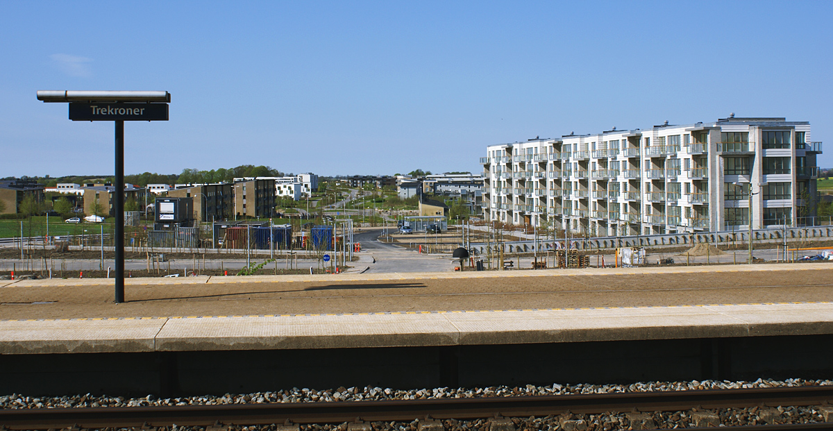 Trekroner is a new town area in the eastern part of Roskilde, Denmark